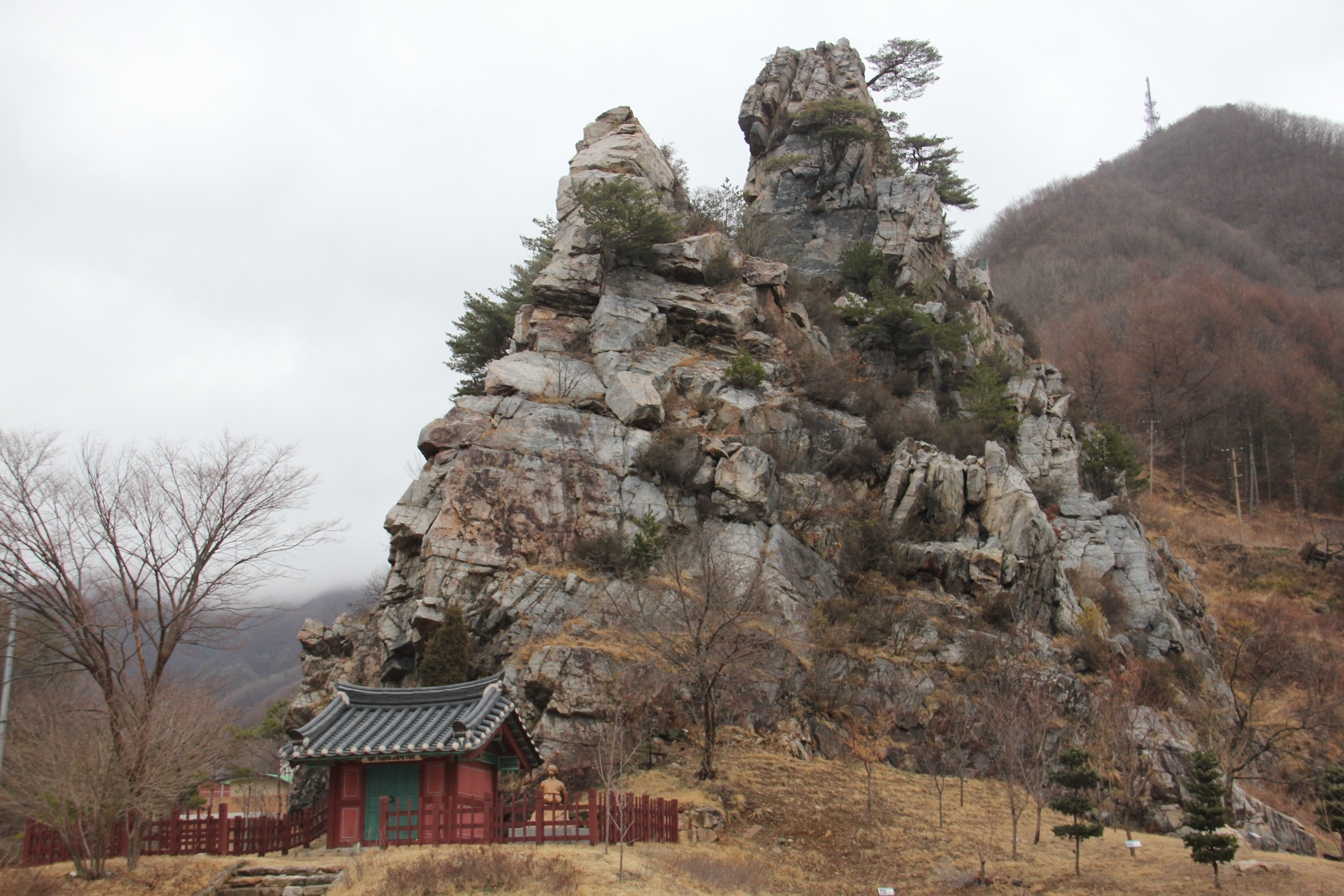 It has been the simbol of Sangdong Mine and Sangdong Town. There is the myth (age-old story) in Sangdong town and the rock has been bearing tungsten rock due to a lady's deep sorrow who could not have a baby. Most of Sangdong residents believe that it has brought glorious days with robust exports in tungsten and prosperity in mine business and they celebrate its annual town festival in fall season.